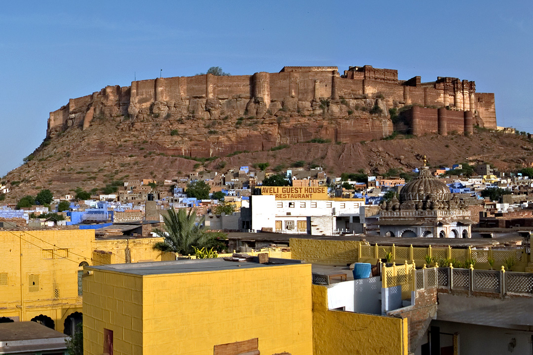 Mehrangarh Fort in Jodhpur/India source: own photo, may 17, 2005 photo: nomo/michael hoefner